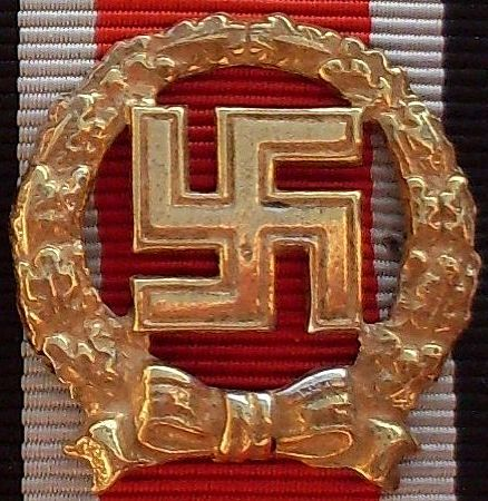 Honour Roll Clasp of the Army (de-nazified version of 1957 on the left, original on the right)